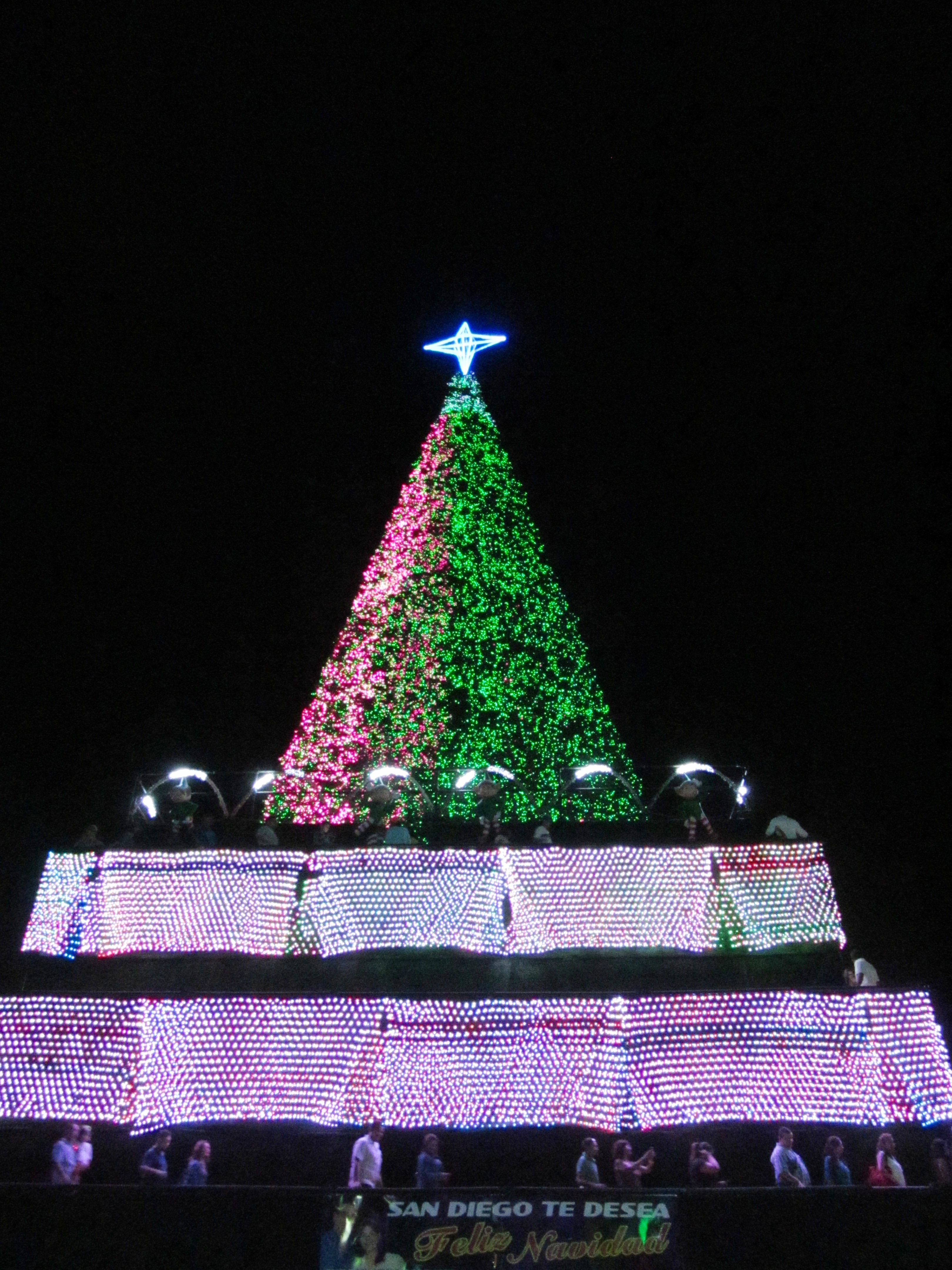 Arbol Navidad San Diego 2013 Edo Carabobo